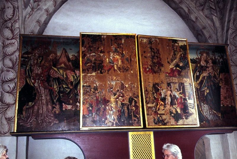 Sanderum Kirke from apr.1100